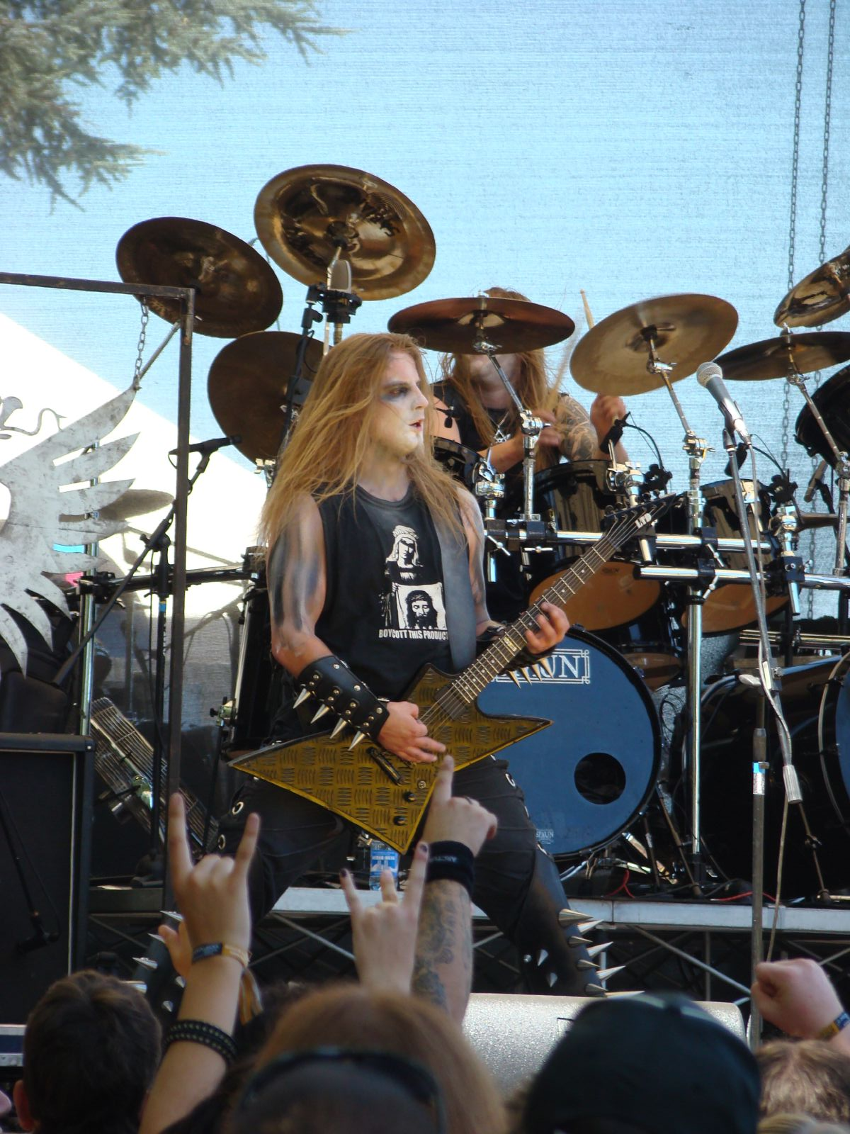 Behemoth live